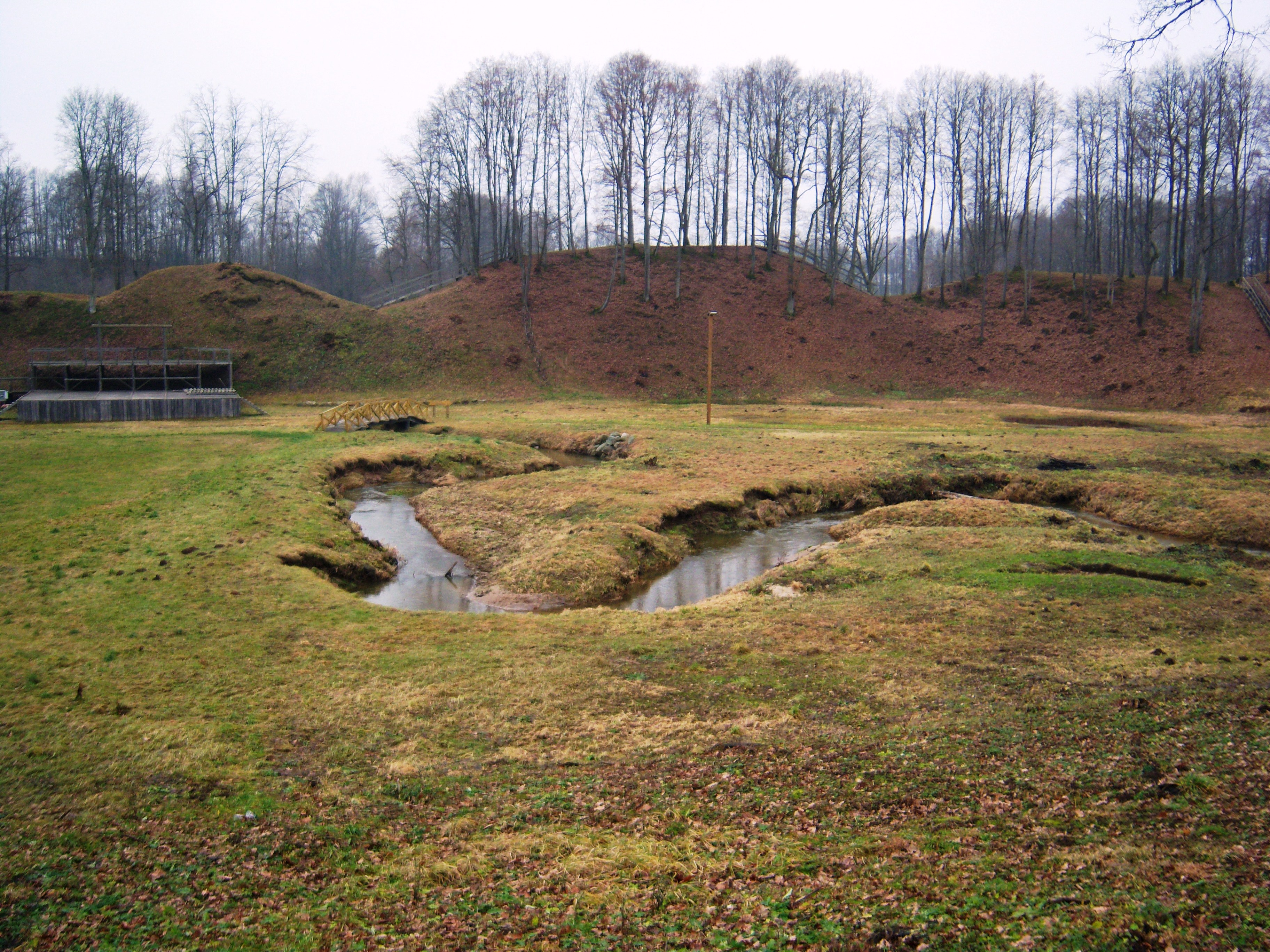 Šešuvis River by Molavėnai Hillfort I, Raseiniai District, Lithuania